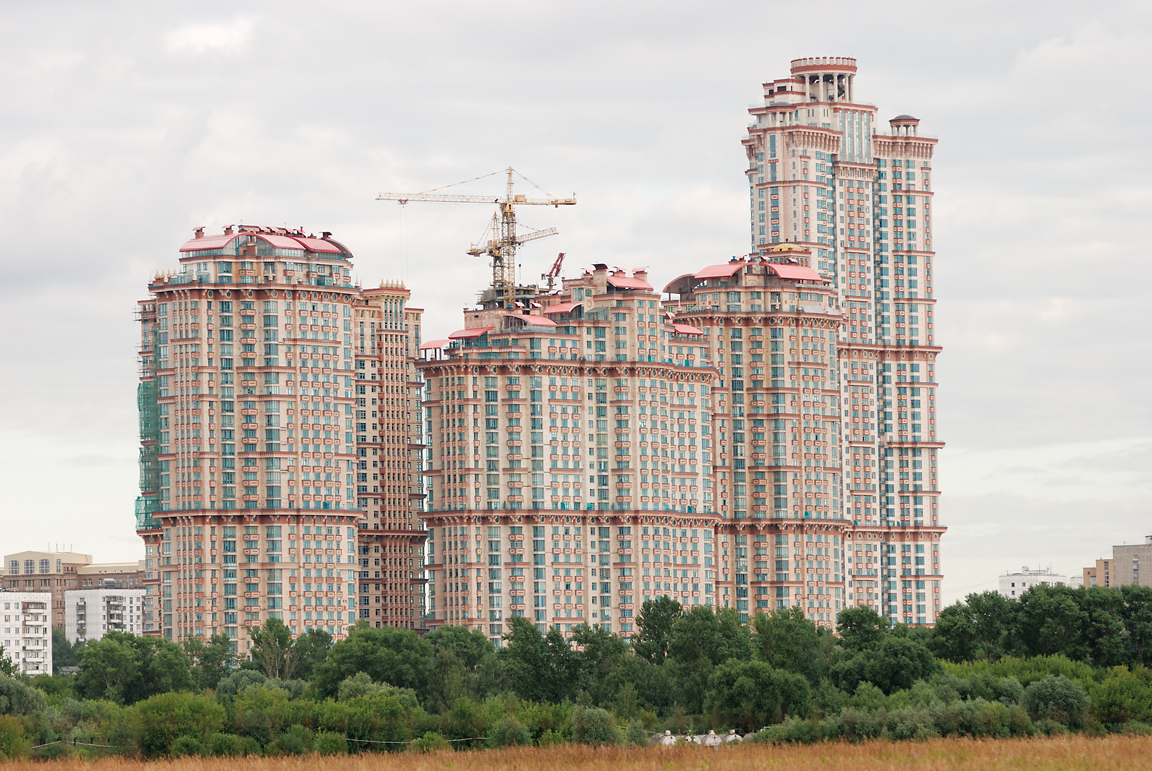 The Scarlet Sails apartment complex with 48-storey tower.